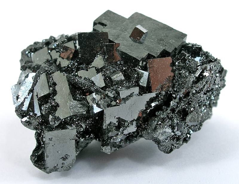 Bixbyite Locality: N'Chwaning I Mine, N'Chwaning Mines, Kuruman, Kalahari manganese fields, Northern Cape Province, South Africa (Locality at ) Size: 3.9 x 2.9 x 2.4 cm. This remarkable specimen turned up in a small South African collection and when I showed it to Charlie Key, expert on all things African, his jaw dropped and he said something like "I never thought I'd see another..." He apparently had one from this same pocket, in the early 1980s, and has not had another since. This specimen he ranked very highly, and said they would both be among the best he knew of from the Kalahari fields. By worldwide standards, these would also have to command top spot except for a very few specimens from Utah, and those are of different habit entirely. The lustre and sharpness on these are amazing, they look carved. The large crystal is 1.6 cm, ranking very highly for the species. The sharpness and lustre, though, make this so distinct from Utah material of similar size that I thought at first this must be magnetite and not bixbyite. Charlie also confirmed the locality information.